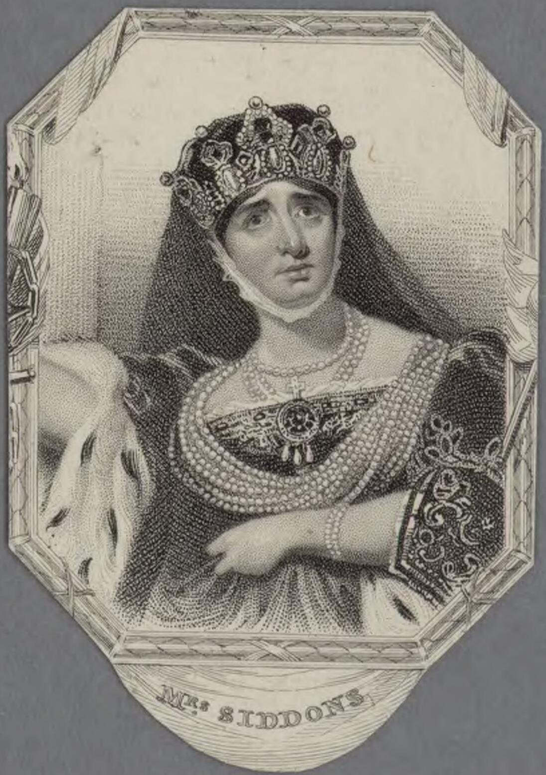 A portrait from the Welsh Portrait Collection at the National Library of Wales. Depicted person: Sarah Siddons – Welsh actress